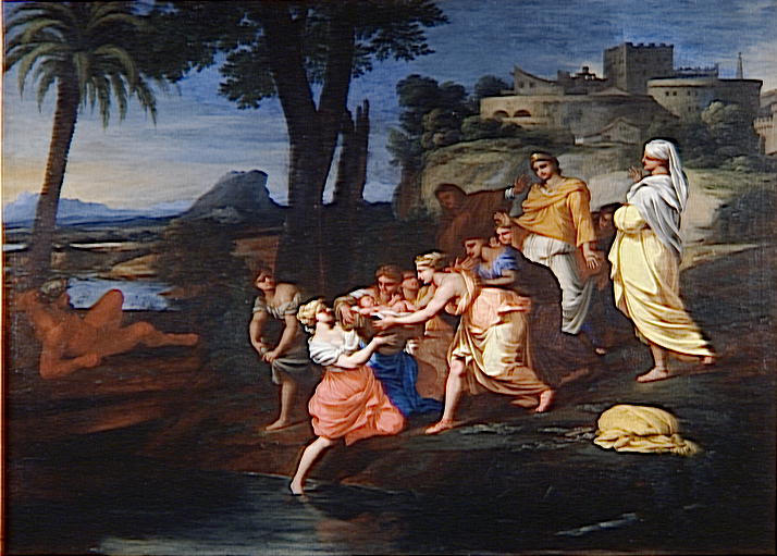 Moyse saved from the floodlabel QS:Len,"Moyse saved from the flood"label QS:Lfr,"Moïse sauvé des eaux"